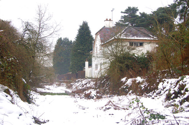 The former Dunchurch railway station, Dunchurch, Warwickshire. On the line from Rugby to Leamington Spa, the station, built twenty years after the line, was opened in October 1871. Regular passenger services on the Rugby to Leamington line were withdrawn in June 1959 (although diverted passenger services occasionally used the line after this date) but Dunchurch station remained open for goods traffic until the early 1960s. The station house in the photo is now a private residence.